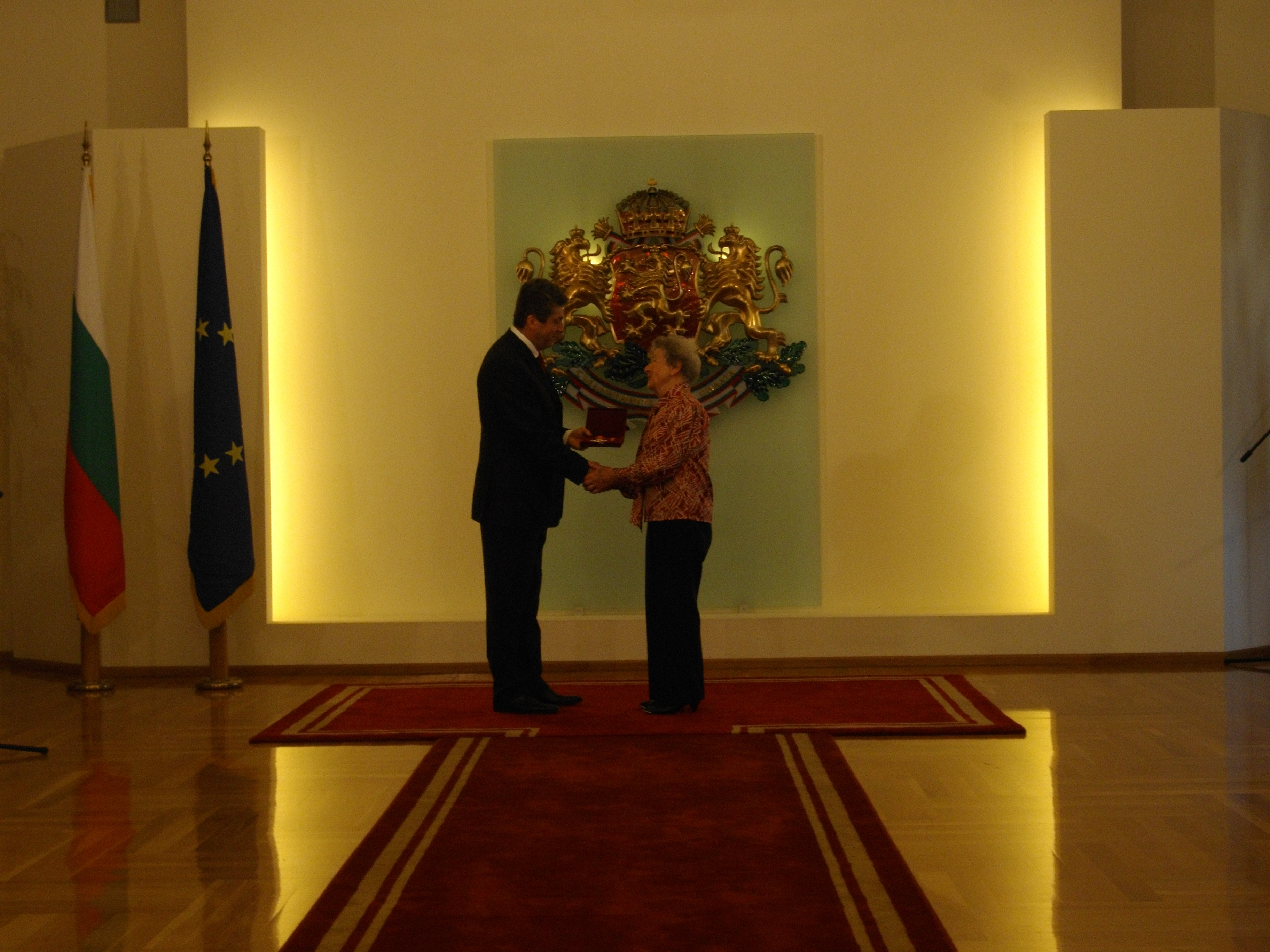 Bulgarian cartoon film director from Czech origin Zdenka Doycheva is been awarded with Order St. Cyrill and Methodius